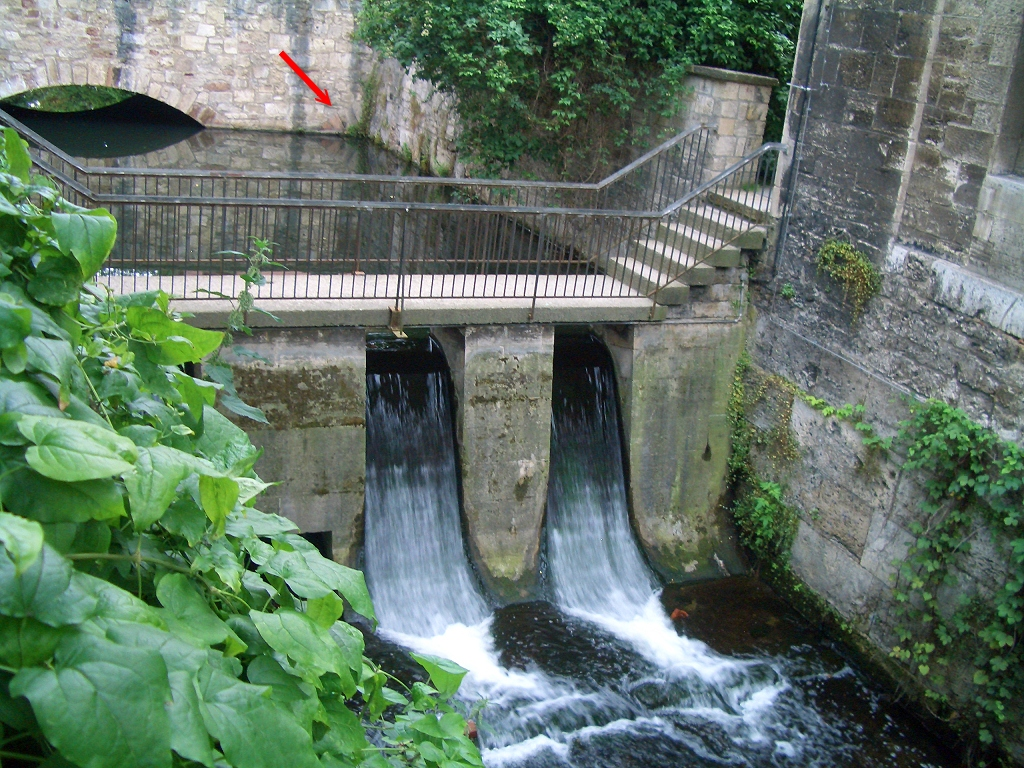 Weir at Neustadtmuehle, Braunschweig.